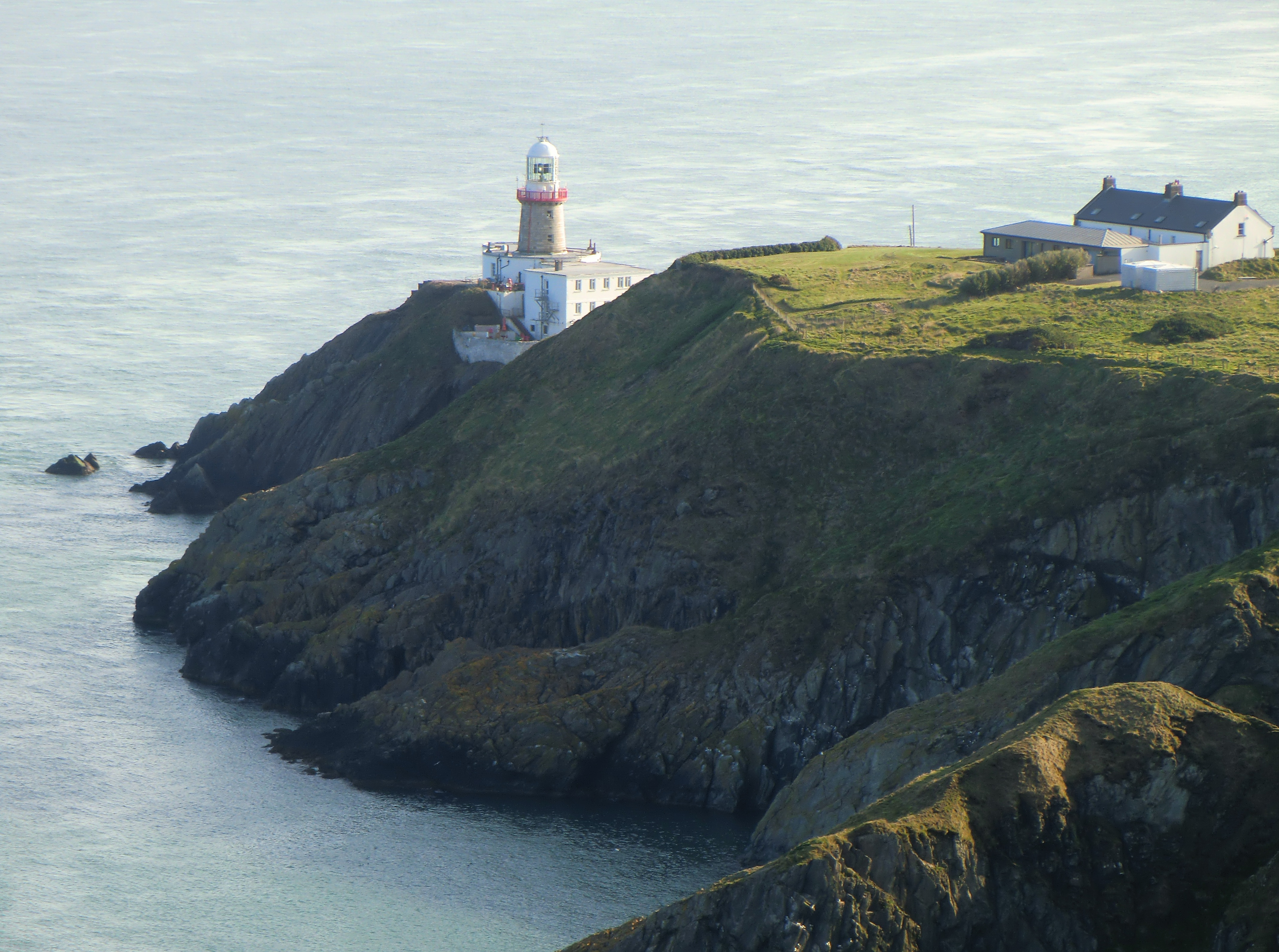 Baily Lighthouse, Howth Head, Dublin, Ireland